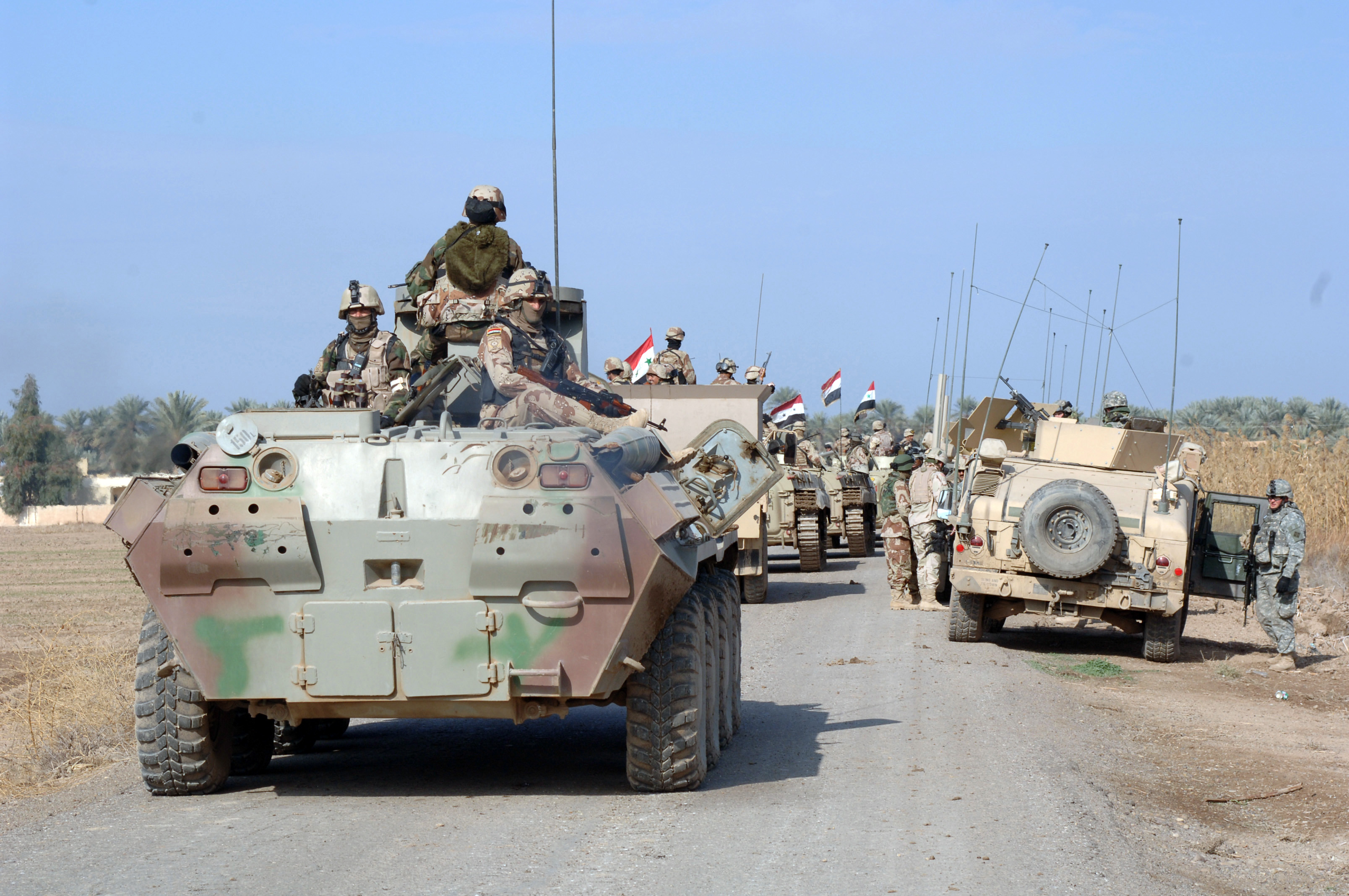 Iraqi forces of the 9th Mechanized Brigade conducted a cordon and search of Hadem Mutleg, Iraq in conjunction with Soldiers of the 1st Battalion, 66th CAB, 4th Infantry Division on 18 January 2006.